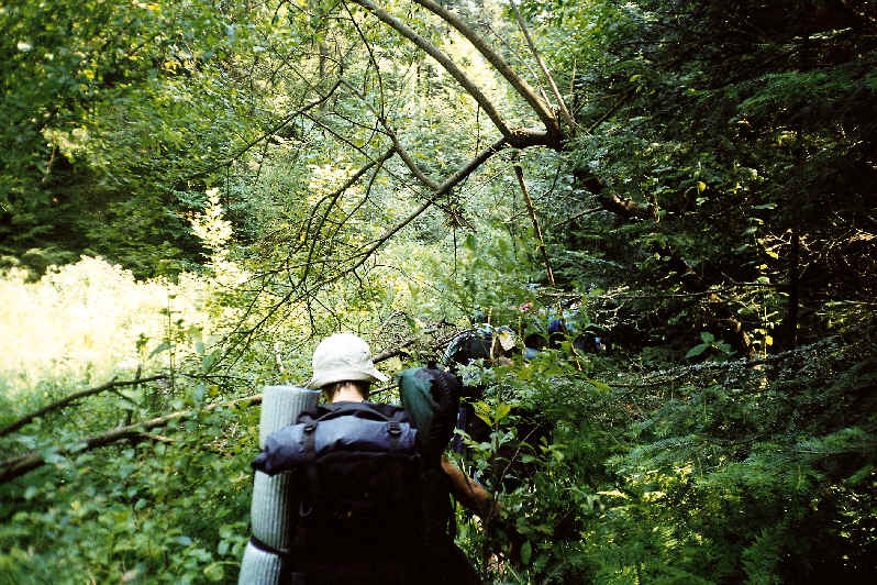 Backpacking/ Off-trail hiking in Beskid Niski (mountains in Polish part of Carpathian Mountains).